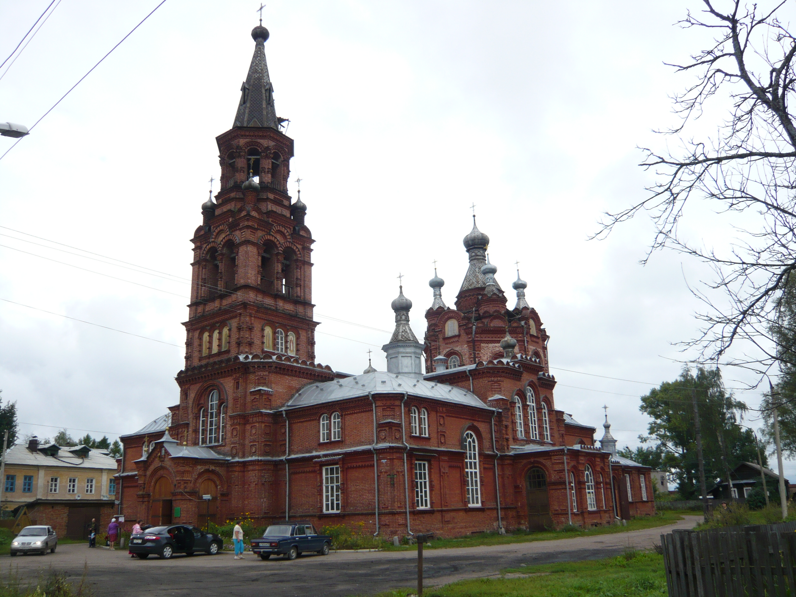 Voznesensky cathedral in the city of Otsashkov